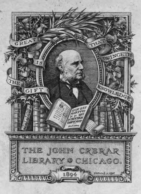 Cholera, Its Protean Aspects and Its Management, Volume 2, 1893. Copied from the work shown. Frontispiece for a book from the John Crerer Library in Chicago.